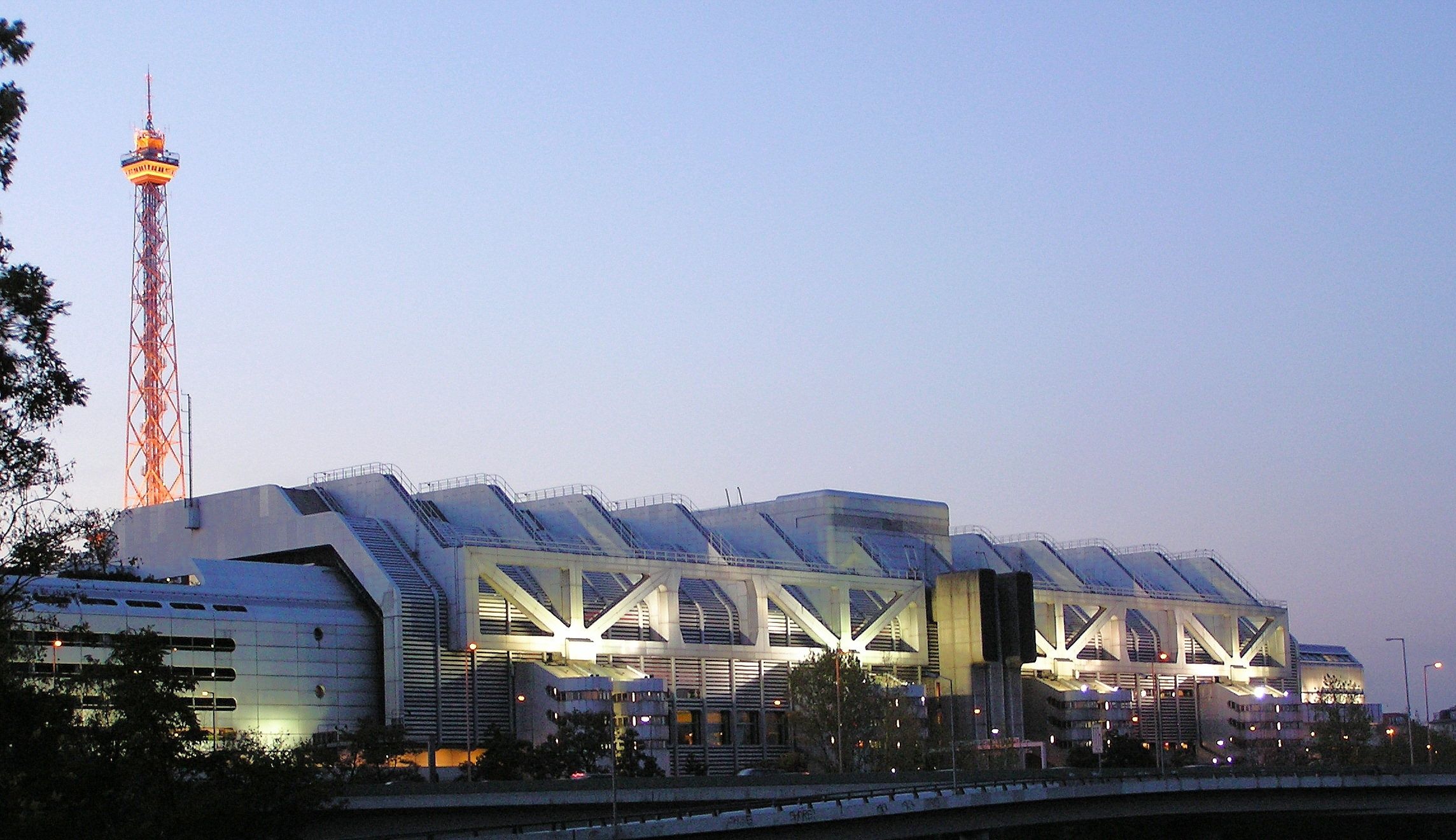 Internationales Congress Centrum Berlin, view from southeast